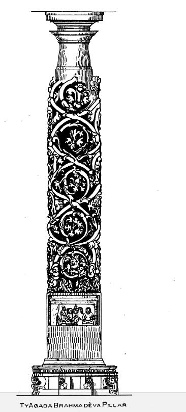 The Tyagada Brahmadeva Pillar (or Chhagada Brahmadeva Pillar) is a decorated free standing pillar commissioned by Chamundaraya, an important minister and commander to four kings of the Western Ganga dynasty. The pillar dates to around 983 C.E. and exists on the Vindyagiri hill, Shravanabelagola, in the Karnataka state, India. According to B.L. Rice, the inscription on the north face contains an account by Chamundaraya himself. The original old Kannada inscription (983 C.E.) was made on all four faces of the square base. However, at present, only the inscription on the north face is intact.